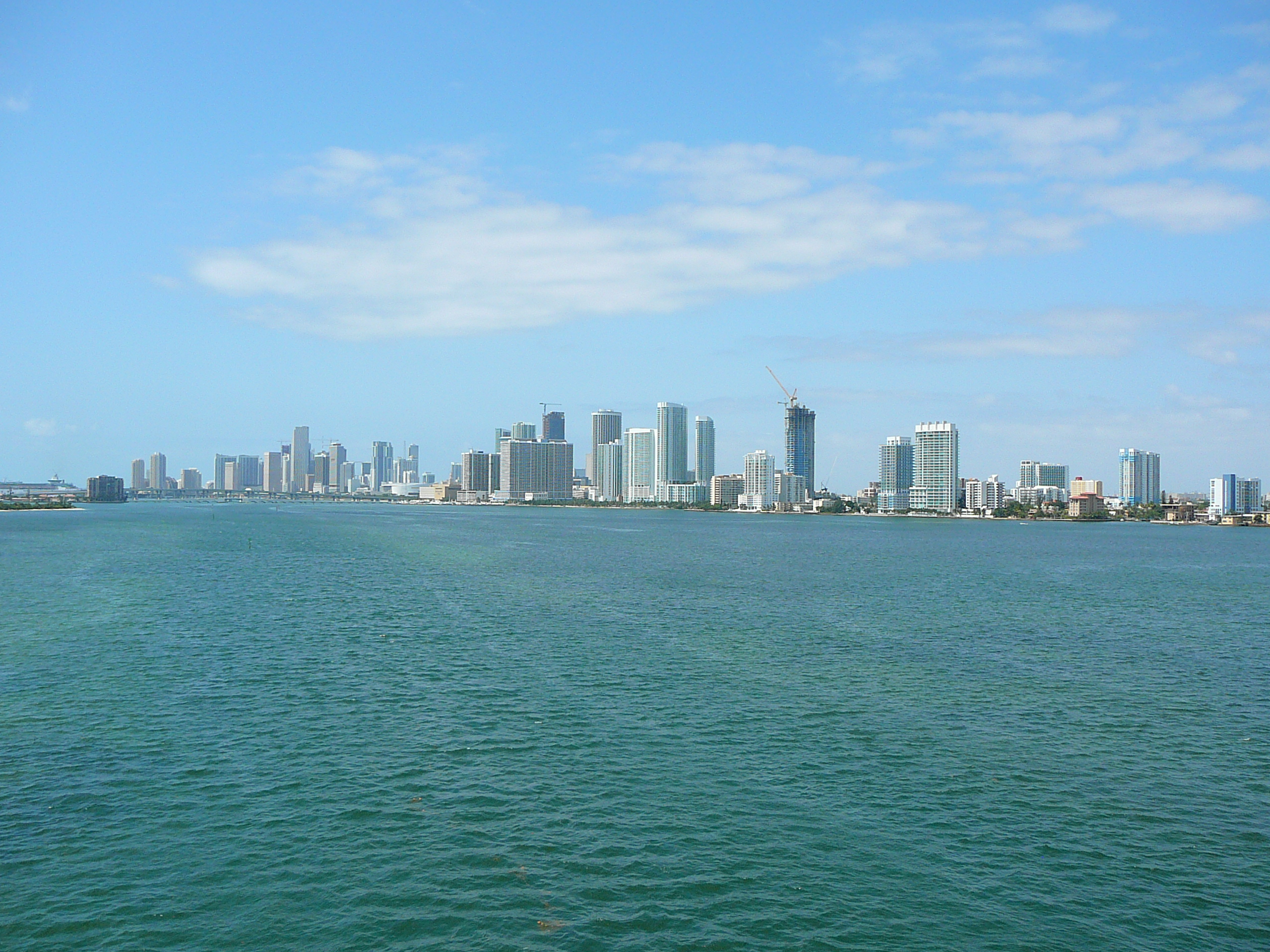 Digital photo taken by Marc Averette. View of south Biscayne Bay from I-195, showing the Downtown Miami skyline in the background 5/17/2008